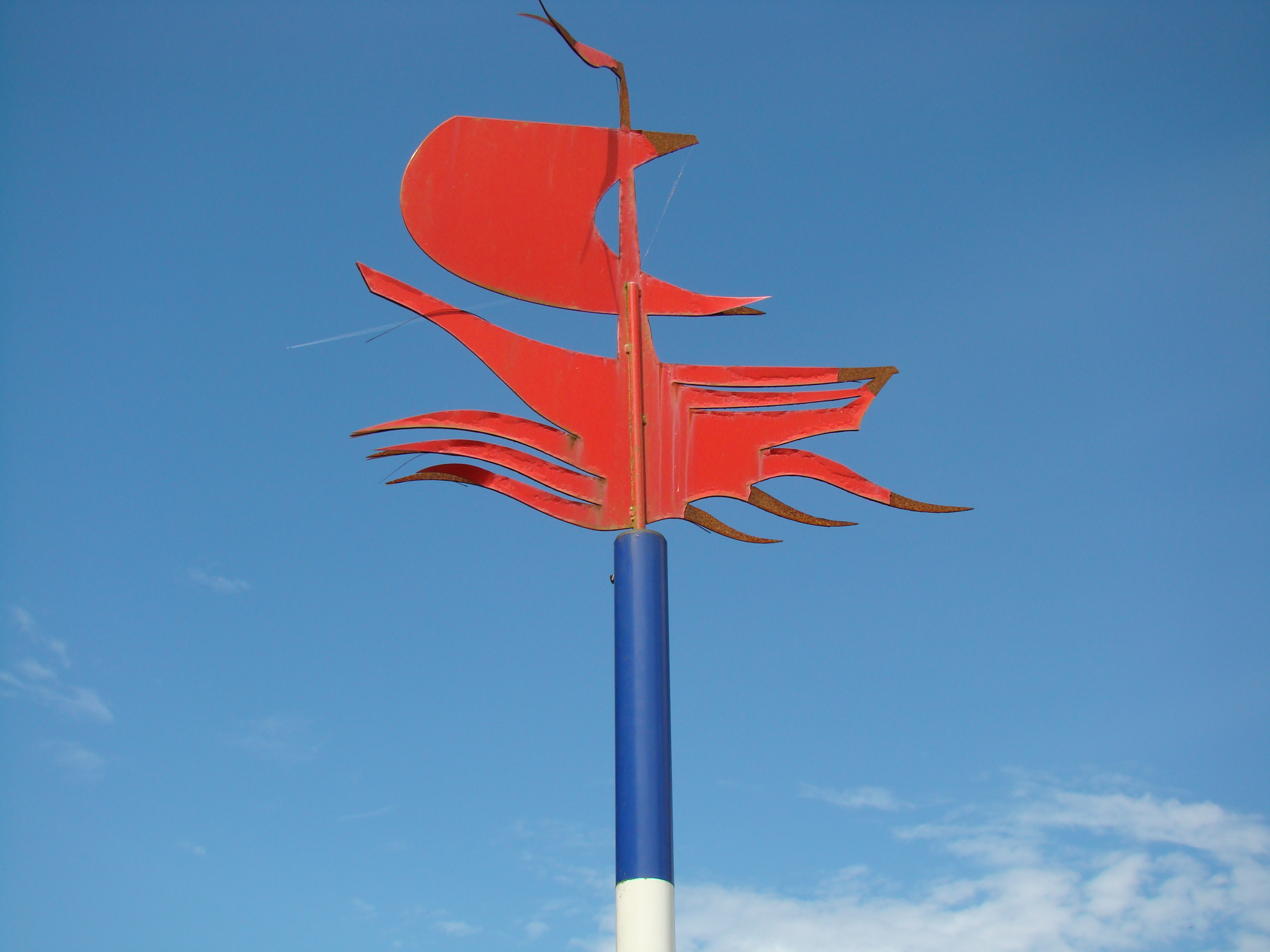 Impressions of Kuinre, Netherlands. The sign is a Dutch marking for the exact location of a shipwreck under the ground.